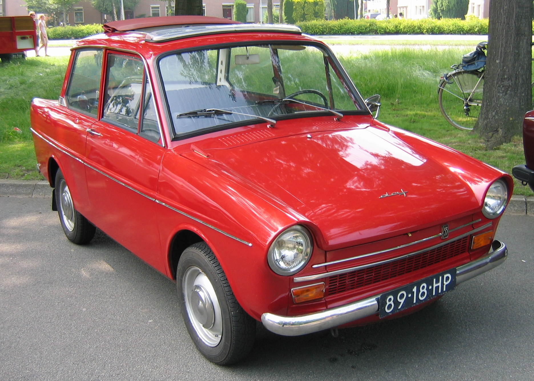 A DAF 33 at the DAF exposition during the Eindhoven Pole Position weekend.